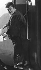 Ana María Giunta- actriz